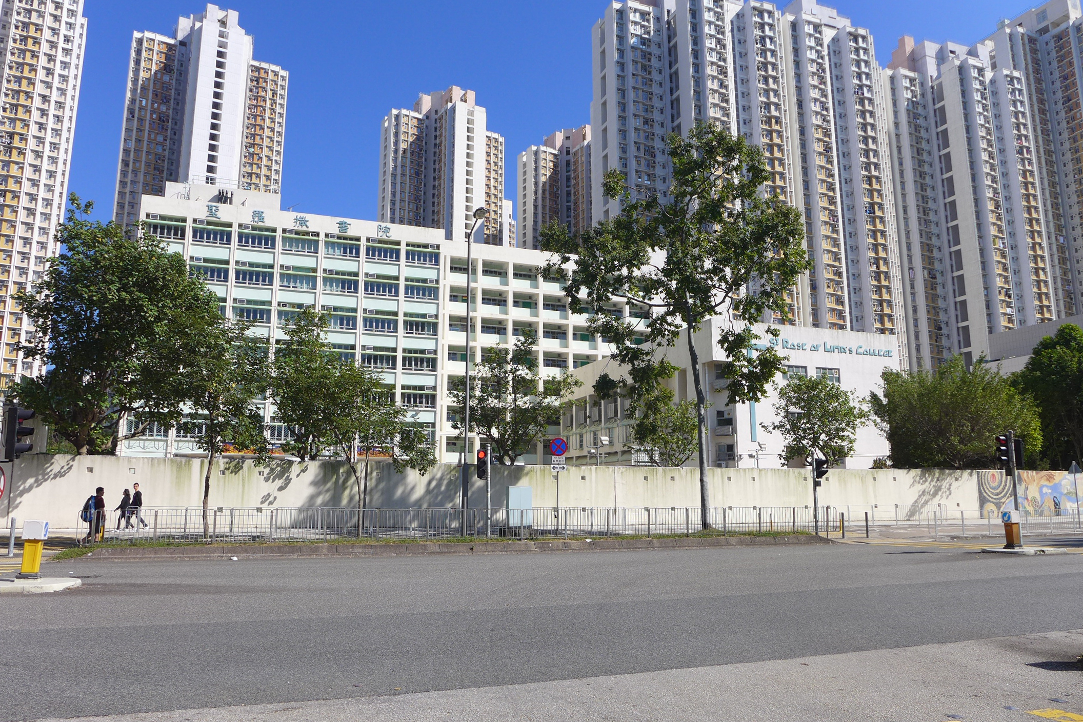 St. Rose of Lima's College